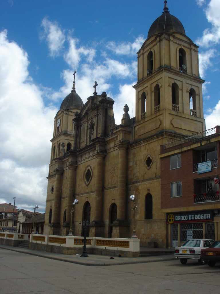 Church of Choconta